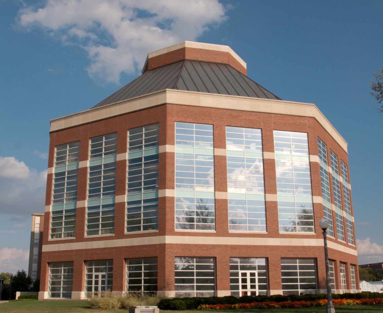 Isaac Funk Family Library (ACES) on the UIUC campus